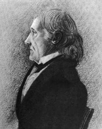 Portrait of Charles McClung, pioneer and surveyor who drew up the original plat of Knoxville, Tennessee, USA.